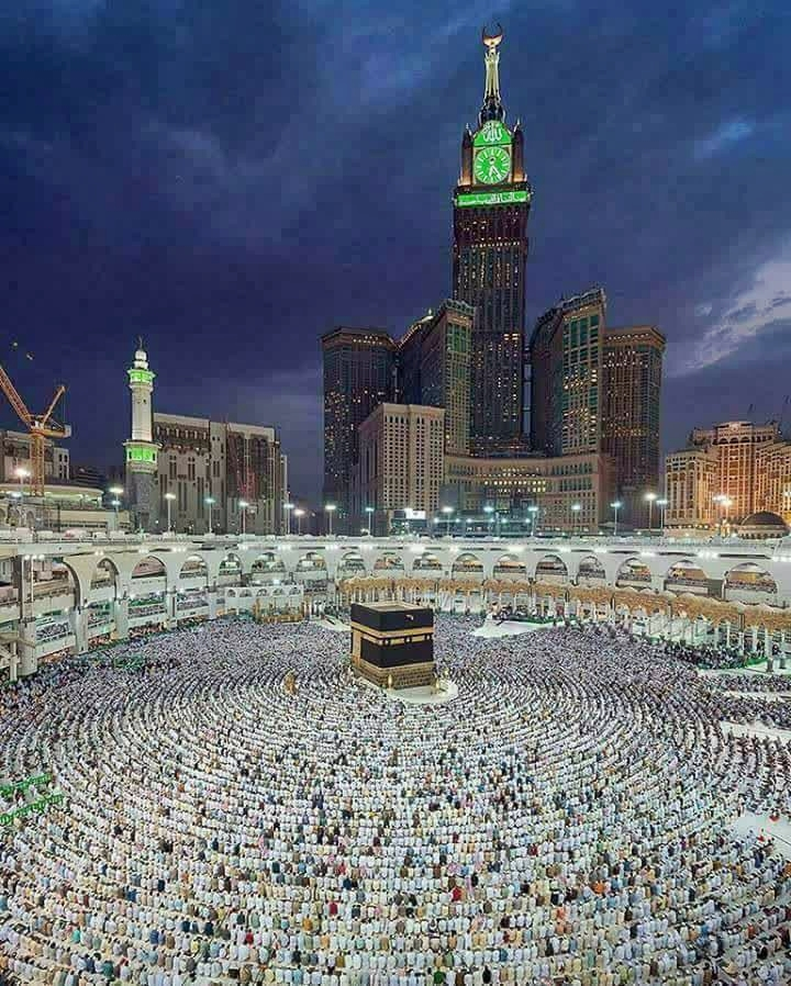 meca peace